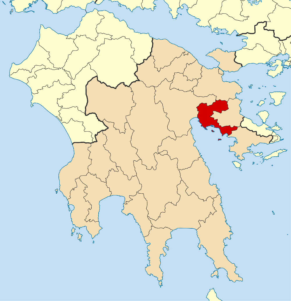 Locator map for Nafplio municipality in Greek region Peloponnese (2011)